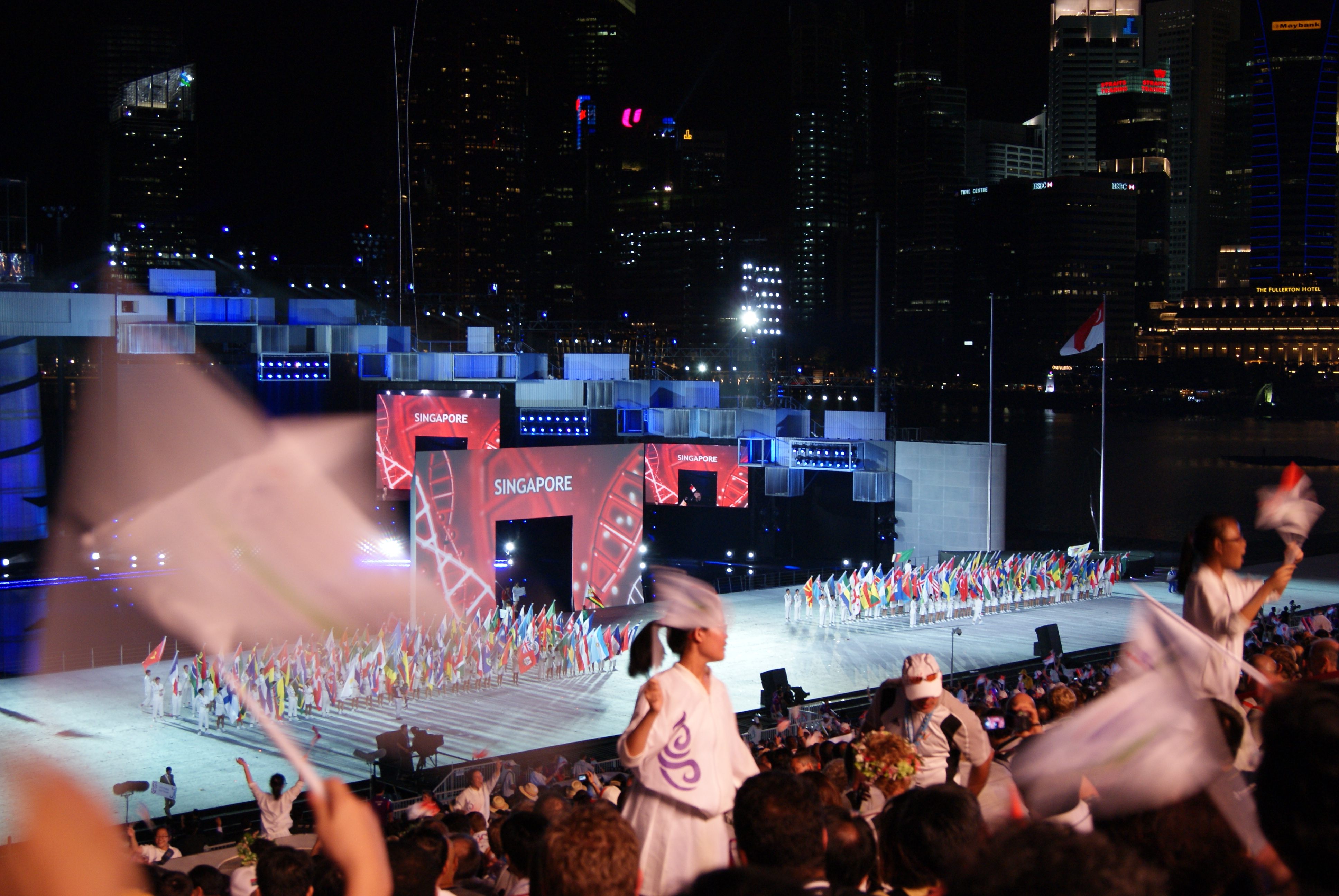 The national flag of Singapore appearing on stage at the Parade of National Olympic Committees' Flags (Chapter 11) during the 2010 Summer Youth Olympics opening ceremony at The Float@Marina Bay, Singapore.